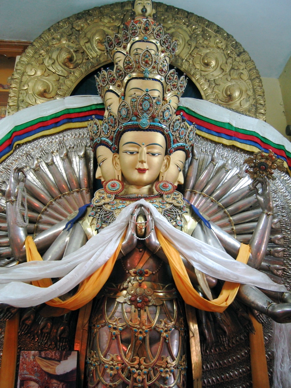 Full photo of the Chenrezig (Avalokiteshvara) statue in the Main Temple of the Dalai Lama. (1000-armed Chenrezig)